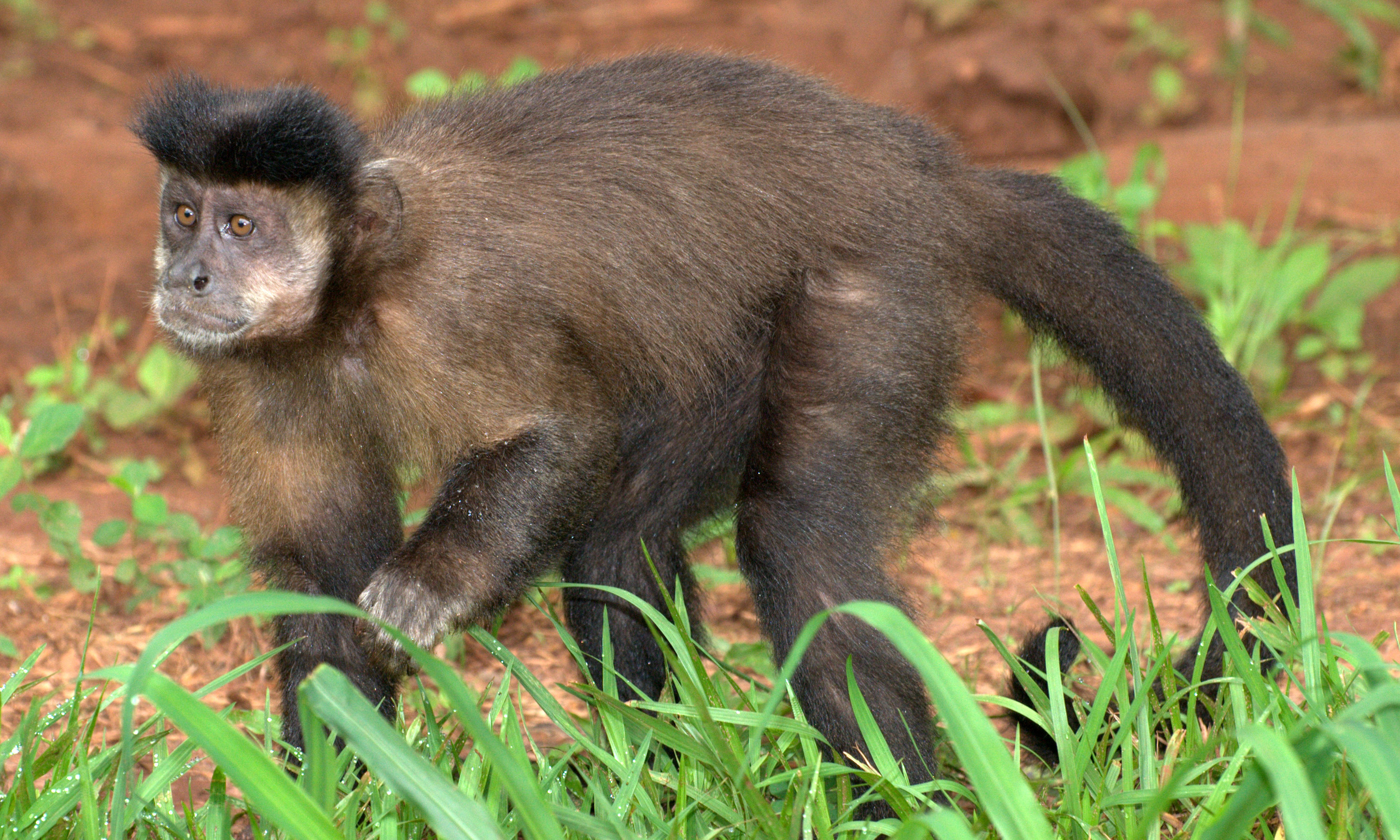 This is a cropped version of the original image.